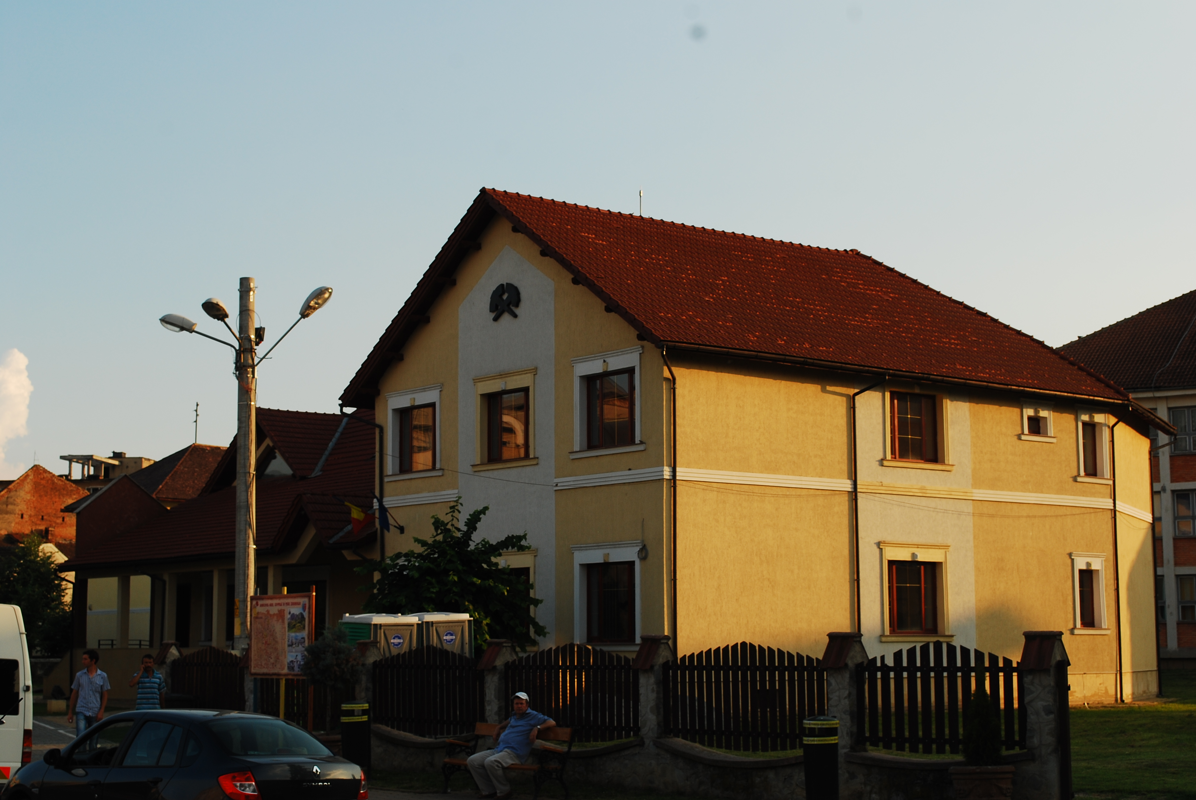 Gold museum in Brad, Hunedoara County, Romania 05